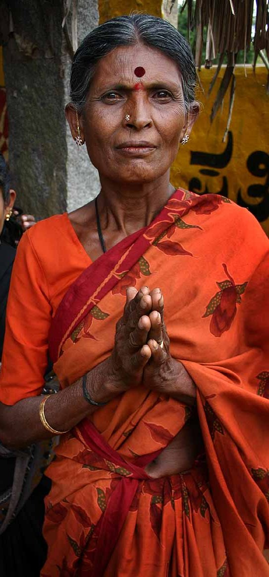 "South India" by Steve Evans. Cropped from original.